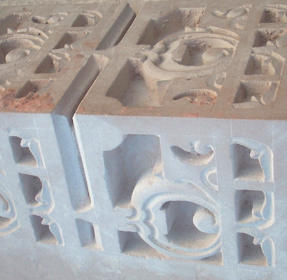 Banshi pahadpur Stone Caving. demo image, use for indidan temple.